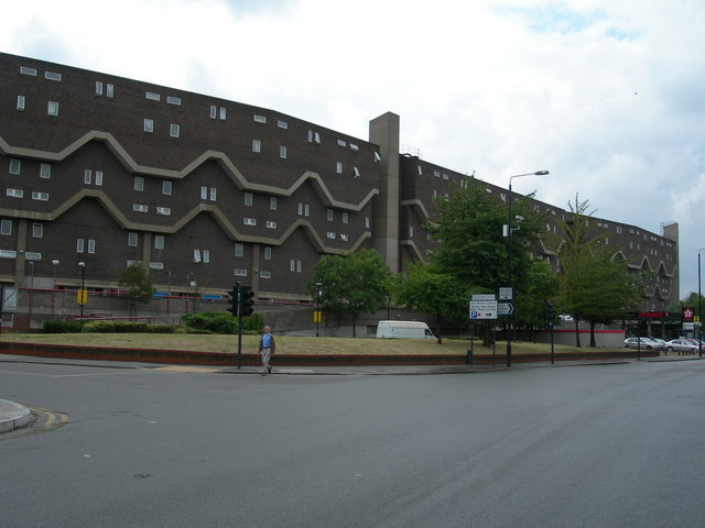 Southwyck House, Brixton. This block of flats is on Coldharbour Lane SW9, very near Brixton town centre. It is known locally as the Barrier Block and it has had an interesting history. Click here for an excellent website that tells more. The reason why the block was built to look like that was to deflect traffic noise from a proposed multi lane highway that was never built.